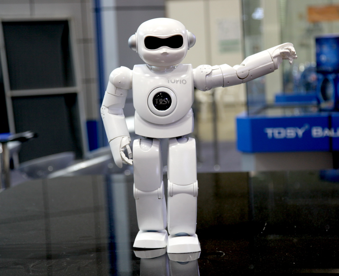 TOSY® TOPIO™ tiny is the miniature of our humanoid robot TOPIO.